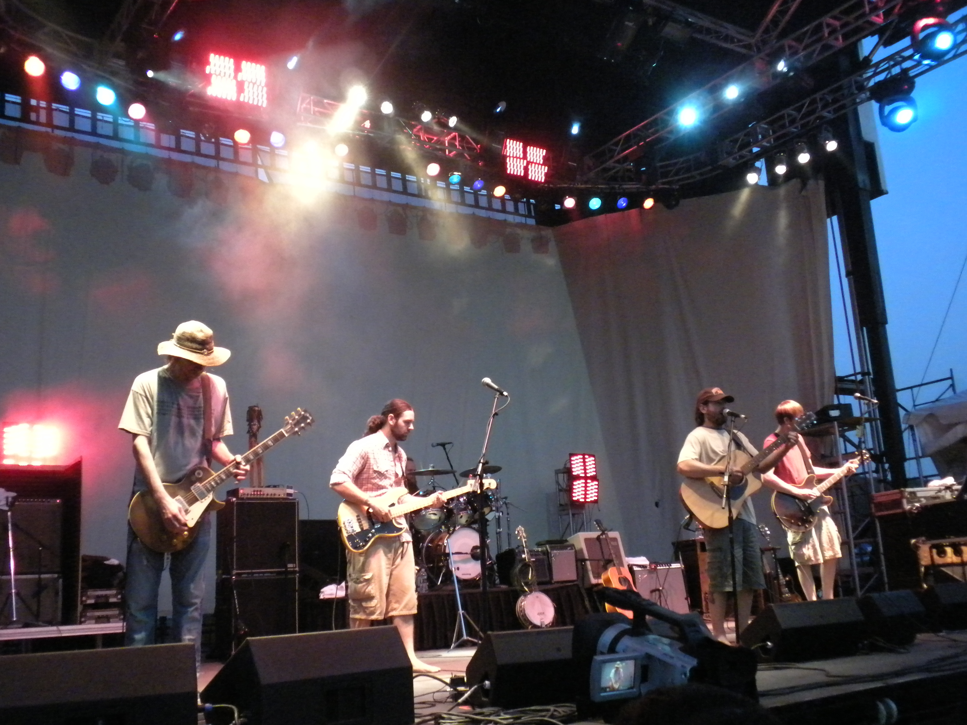 ekoostik Hookah playing at Spring Hookahville in Ohio 2010